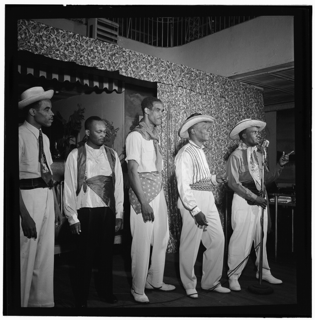 L-R: Unknown person, possibly George Anderson aka "Count of Monte Cristo", Patrick MacDonald, aka "Macbeth the Great", The Duke of Iron, Wilmoth Houdini, Lord Invader [Portrait of Calypso, between 1938 and 1948] 1 negative : b&w ; 2 1/4 x 2 1/4 in. Notes: Gottlieb Collection Assignment No. 355 Purchase William P. Gottlieb Forms part of: William P. Gottlieb Collection (Library of Congress). Subjects: Calypso musicians Calypso musicians--1930-1950. Format: Portrait photographs--1930-1950. Group portraits--1930-1950. Film negatives--1930-1950. Rights Info: Mr. Gottlieb has dedicated these works to the public domain, but rights of privacy and publicity may apply. Repository: (negative) Library of Congress, Prints & Photographs Division, Washington D.C. 20540 USA, Part Of: William P. Gottlieb Collection (DLC) 99-401005 General information about the Gottlieb Collection is available at Persistent URL: Call Number: LC-GLB23- 1026